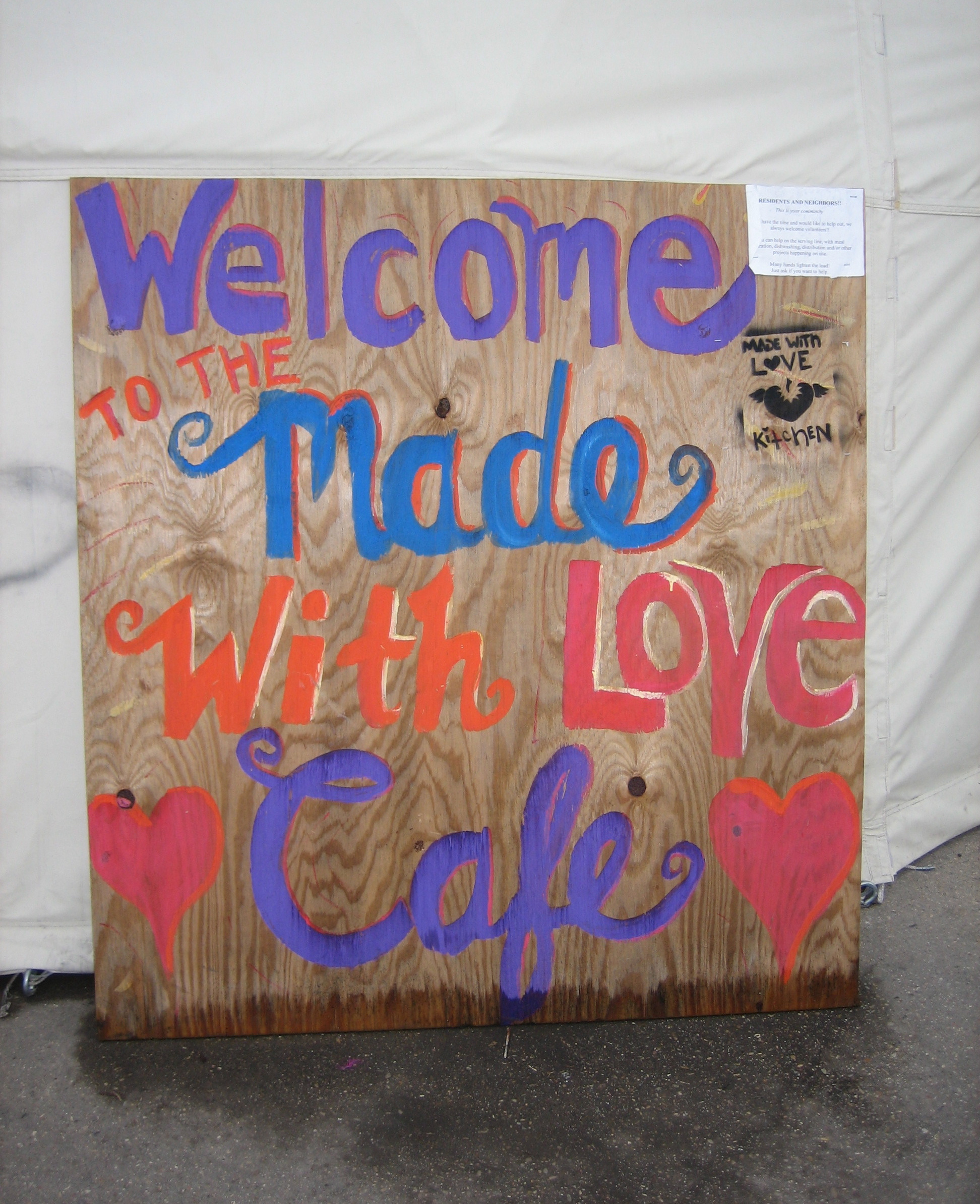 Sign outside free meal tent, at the volunteer relief "tent city", Chalmette, Louisiana